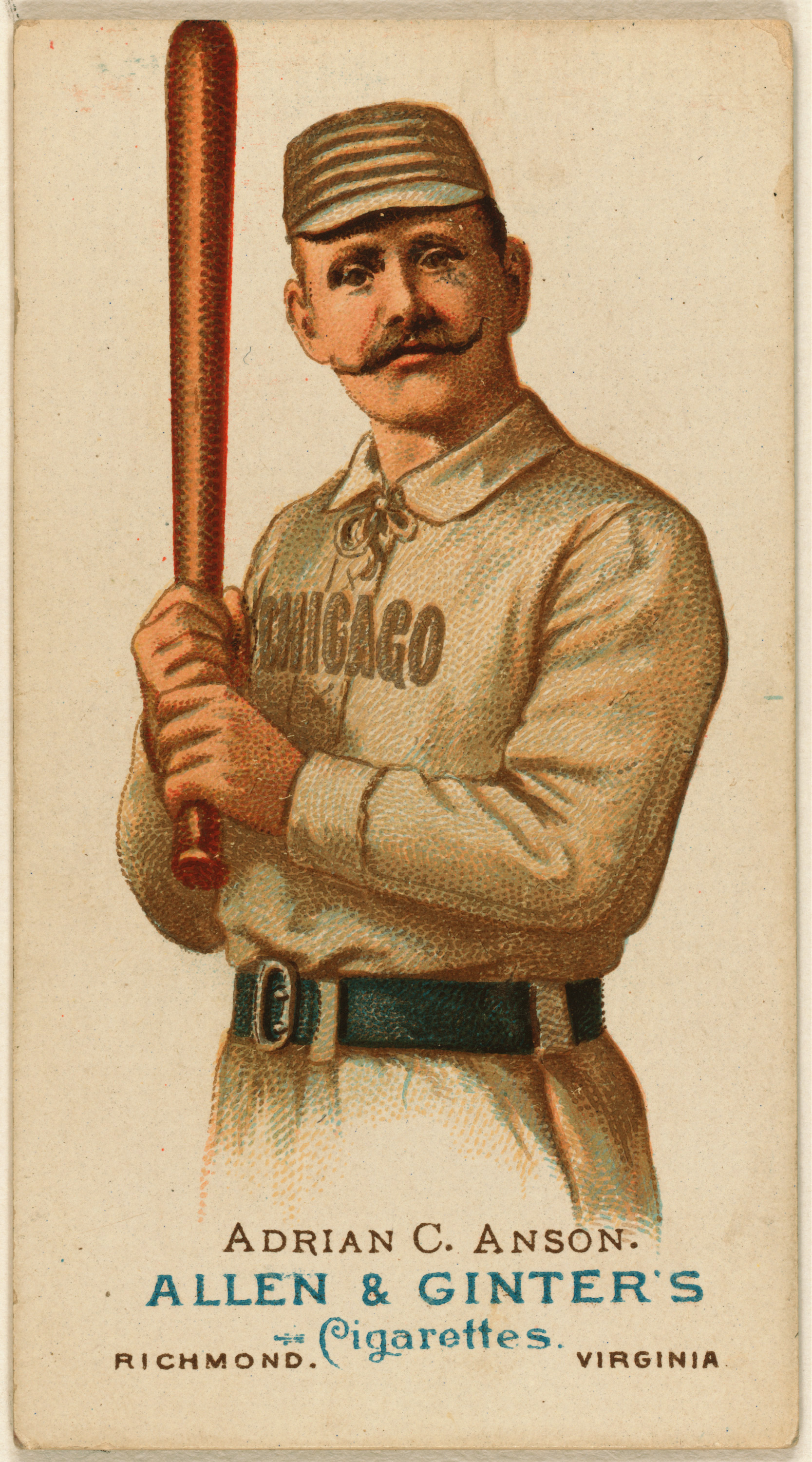 Adrian "Cap" Anson, first baseman, Chicago White Stockings. N28 Allen & Ginter's, Richmond, Virginia. Cigarette cards, chromolithograph.